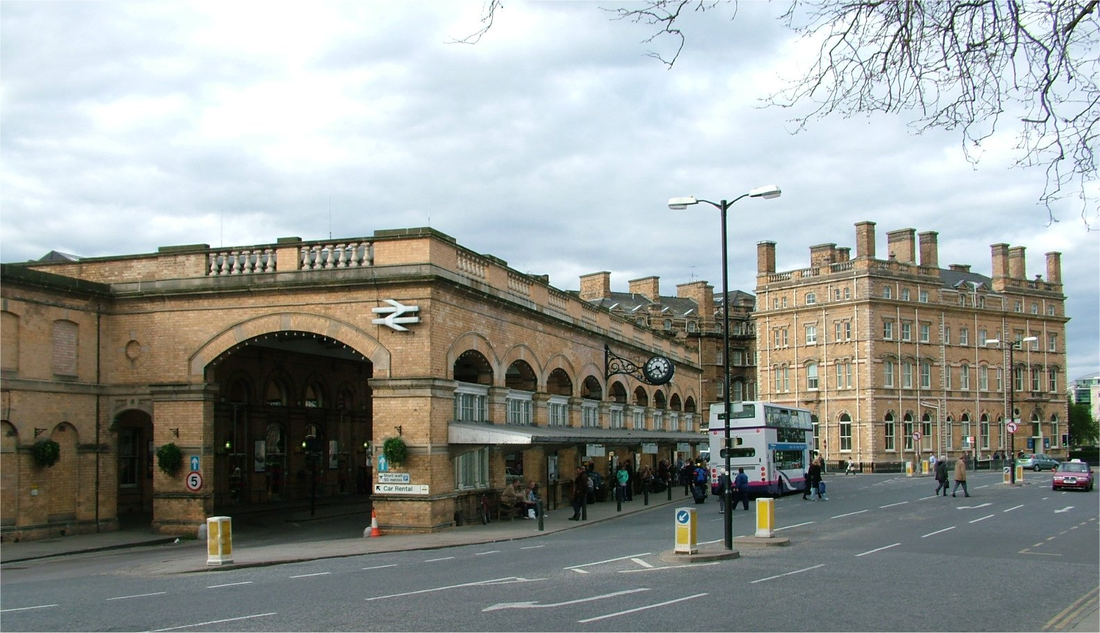 York railway station and Royal York Hotel - April 10 2005 By & copyright --Tagishsimon